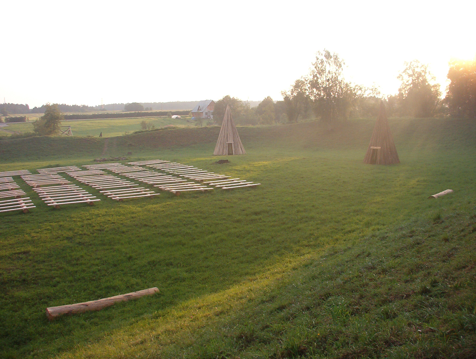 Lohu Stronghold